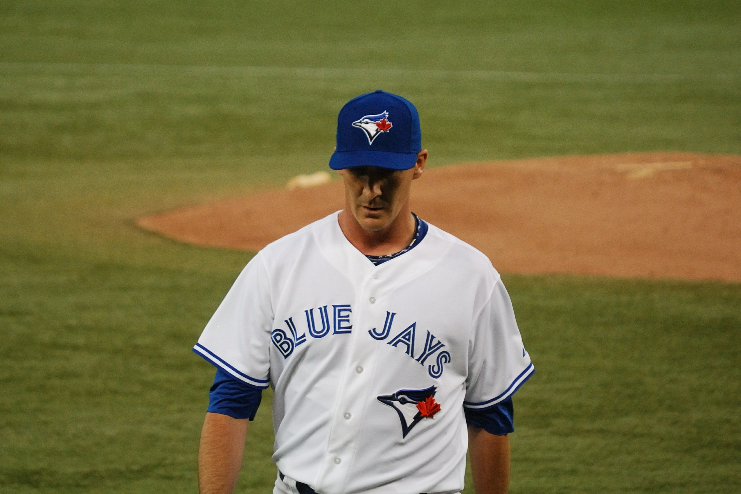 Scott Richmond in 2012